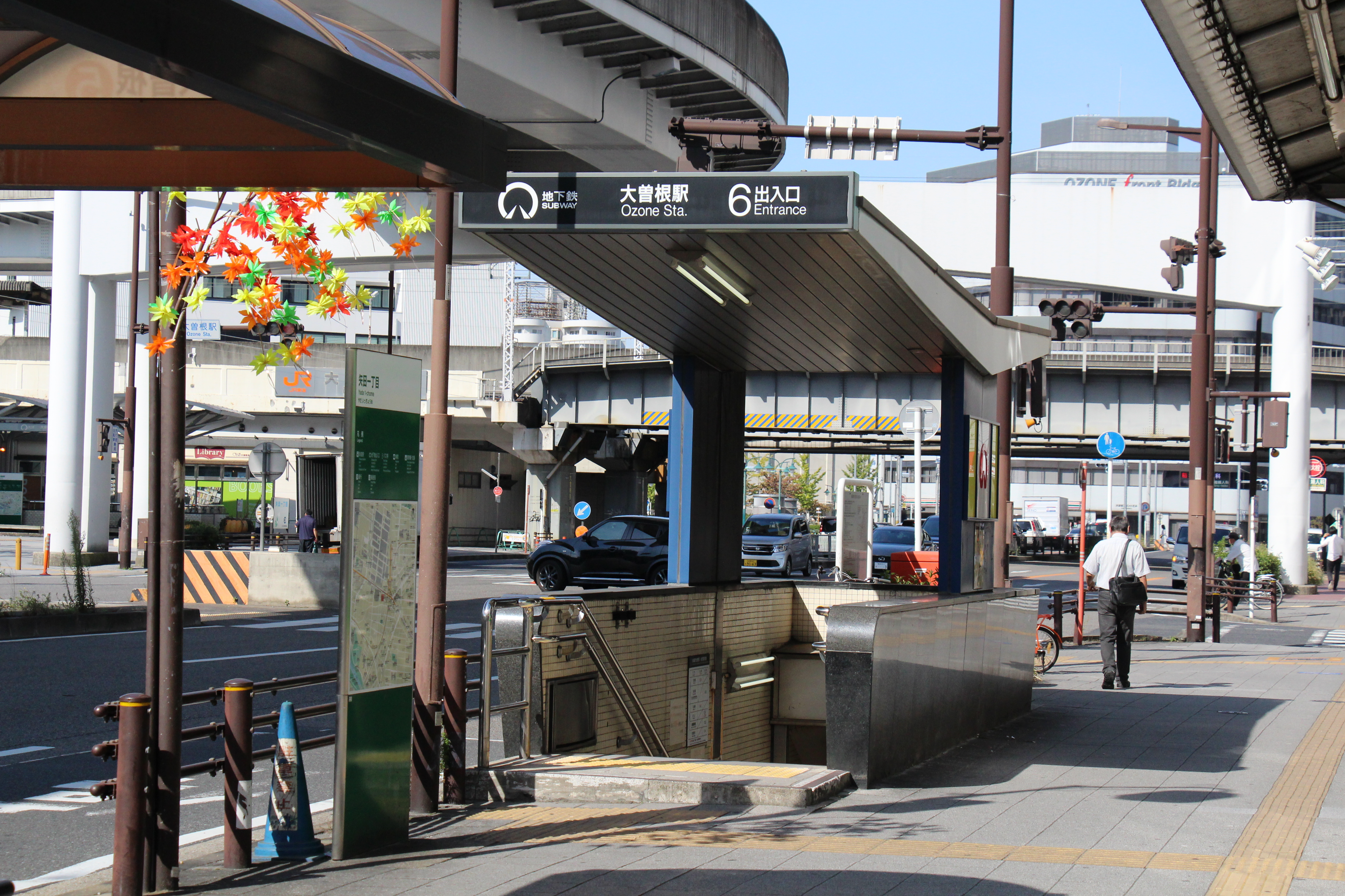 Nagoya Municipal Subway Ōzone Station 6 Entrance